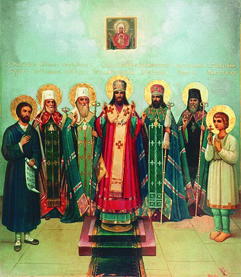 Synaxis of the Siberian saints